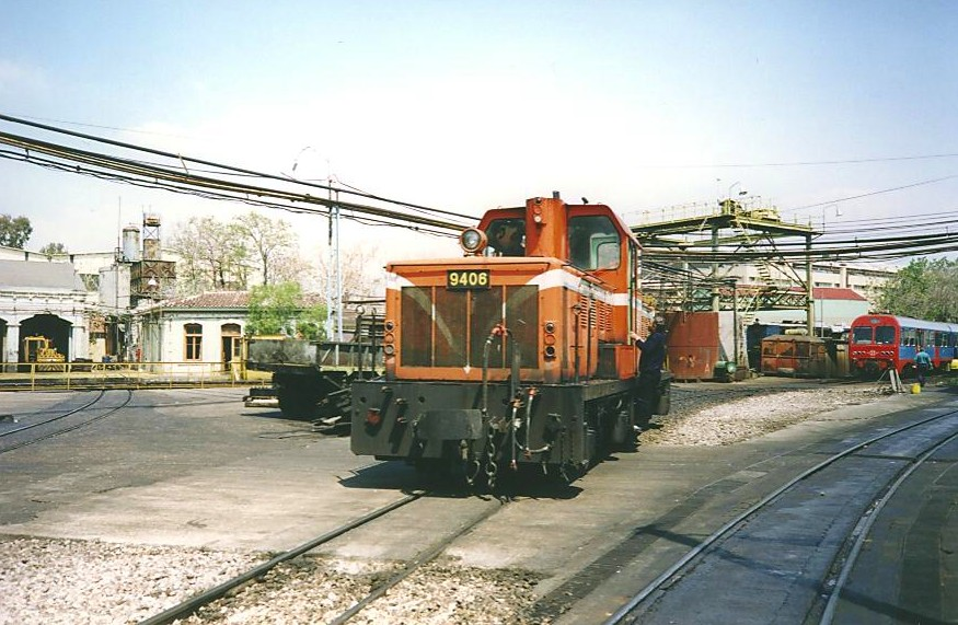 Greek railways narrow gauge Mitsubishi shunter, is shunting at Piraeus shops